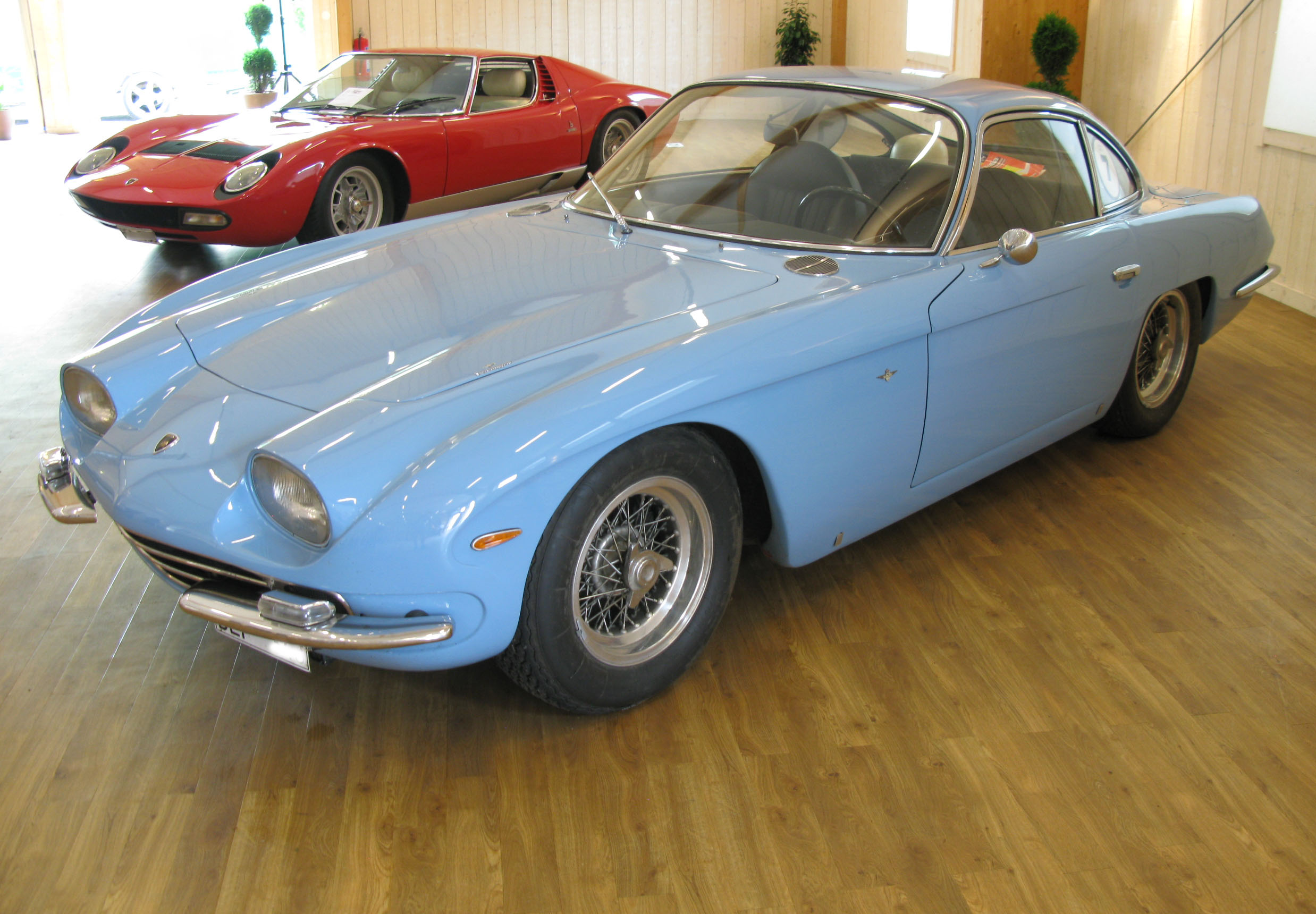 1966 Lamborghini 350 GT.